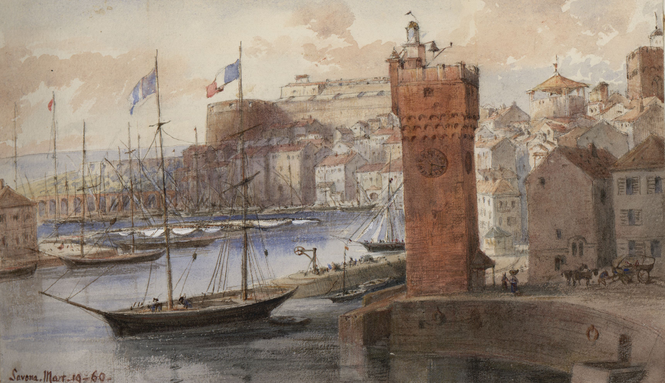 Examples of artwork on a variety of subjects and in a variety of styles by Francis Elizabeth Wynne from a sketchbook (ca. 420 drawings): mixed media, including watercolour, wash and, pen and ink.